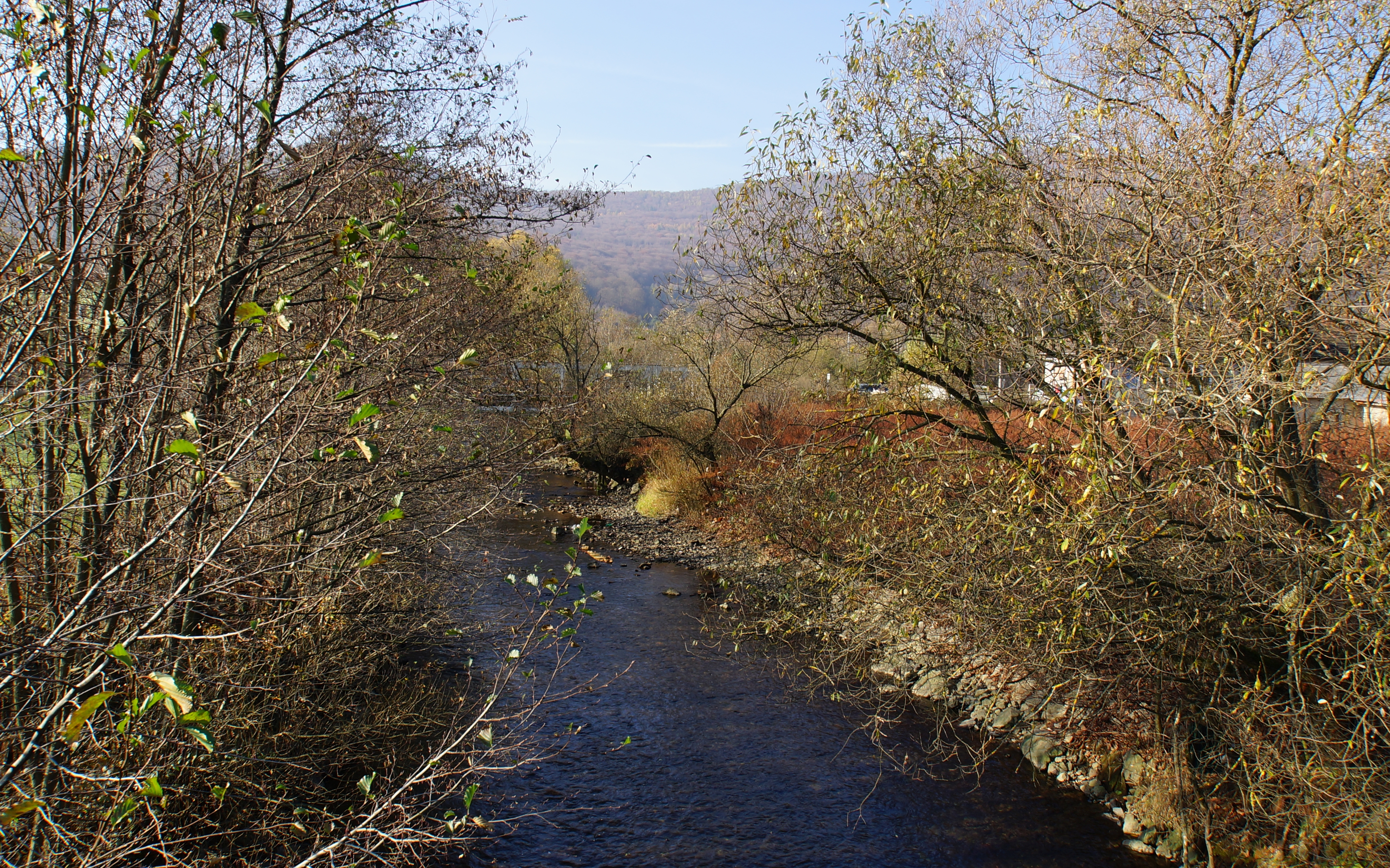 Nadabula is located near the bank of the Sajó River